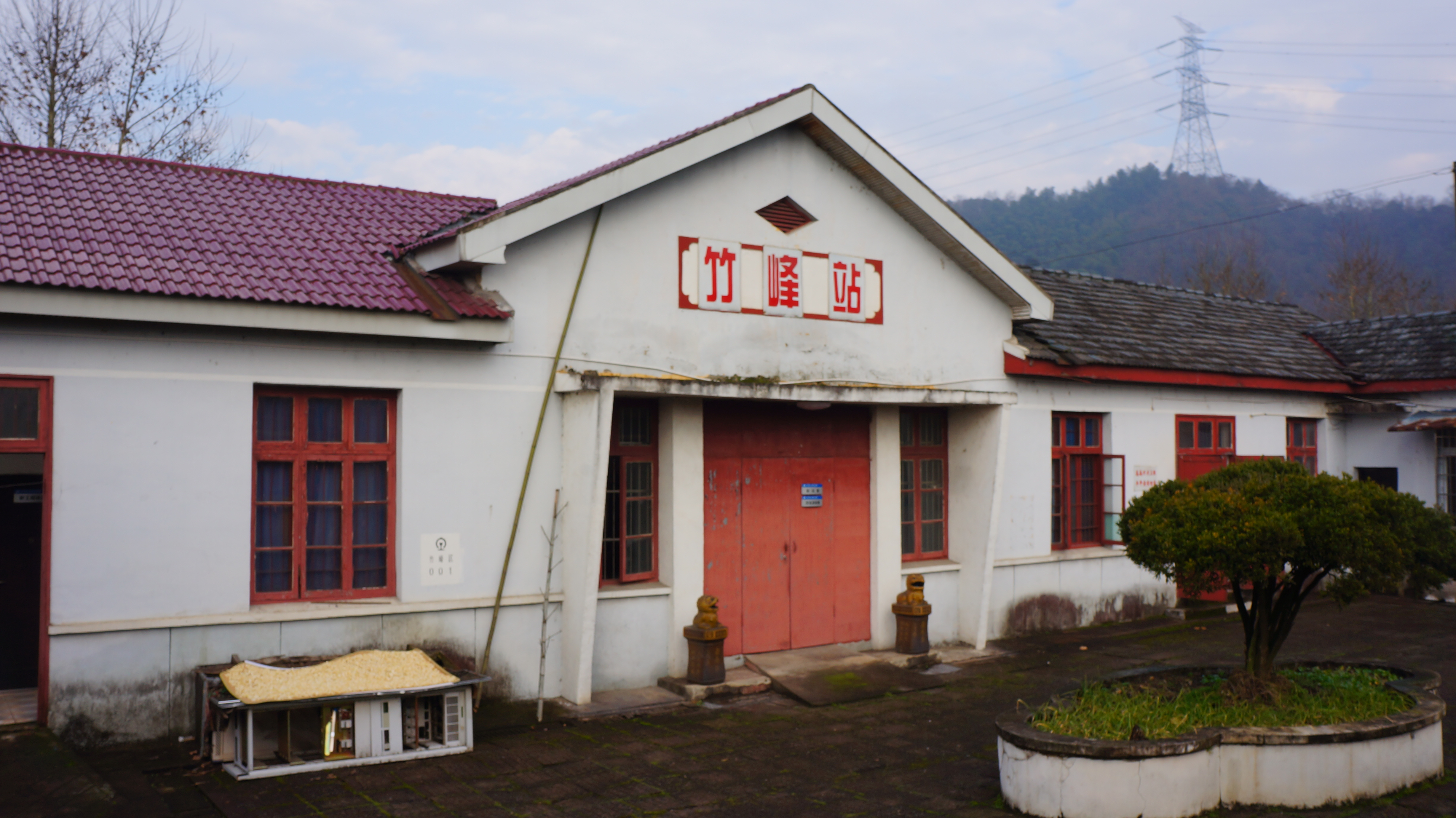 201601 Zhufeng Railway Station